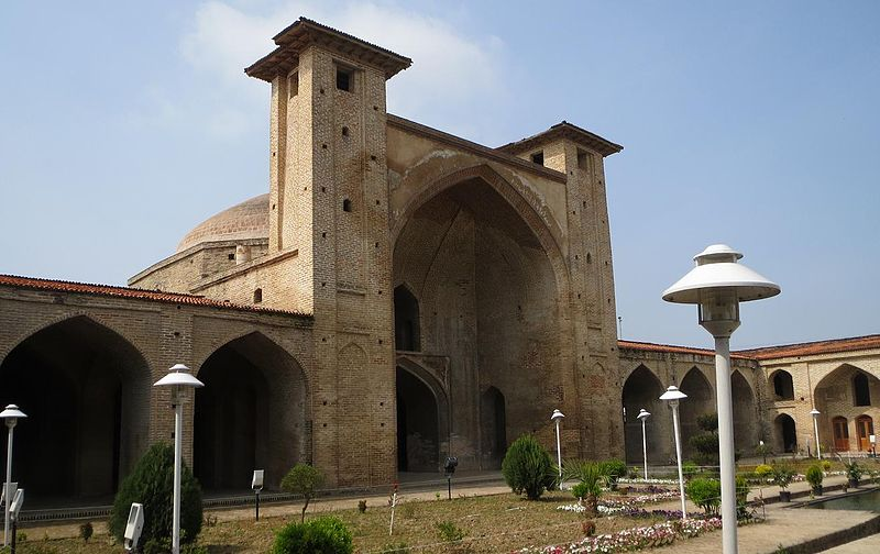 Safawid Mosque at Farahabad, Mazanderan, Iran. Built around 1625 at the winter capital of Iranian Ruler Abbas I.